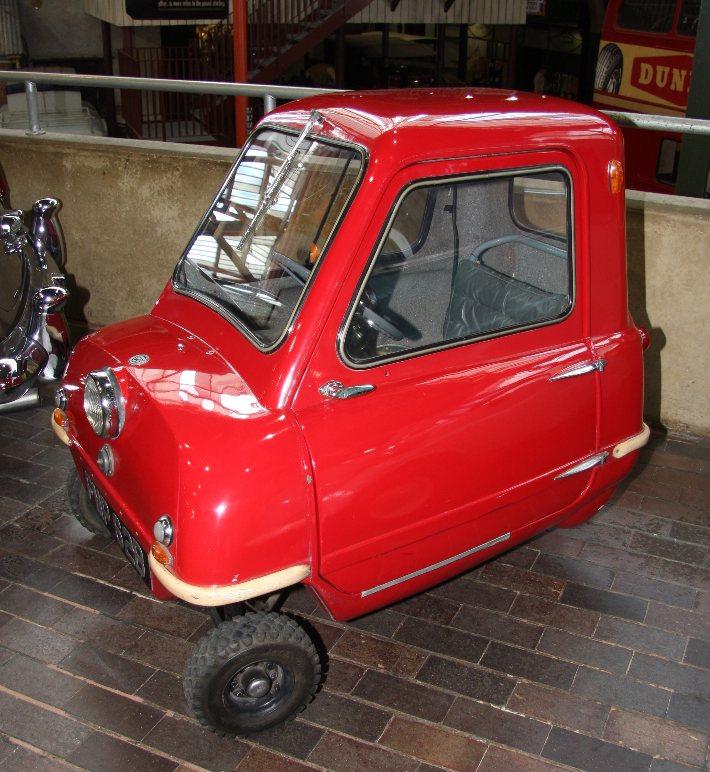 Peel were the Isle of man's only production car maker. the fibreglass single-seat P.50 weighed just 130 lbs. A single door on the nearside allowed access and a lever beside the driver started the 49cc D.K.W. motorcycle engine. Lacking reverse gear, a grab handle at the rear facilitated this manoeuvre. It was built without indicators so hand signals were required through the offside opening window.